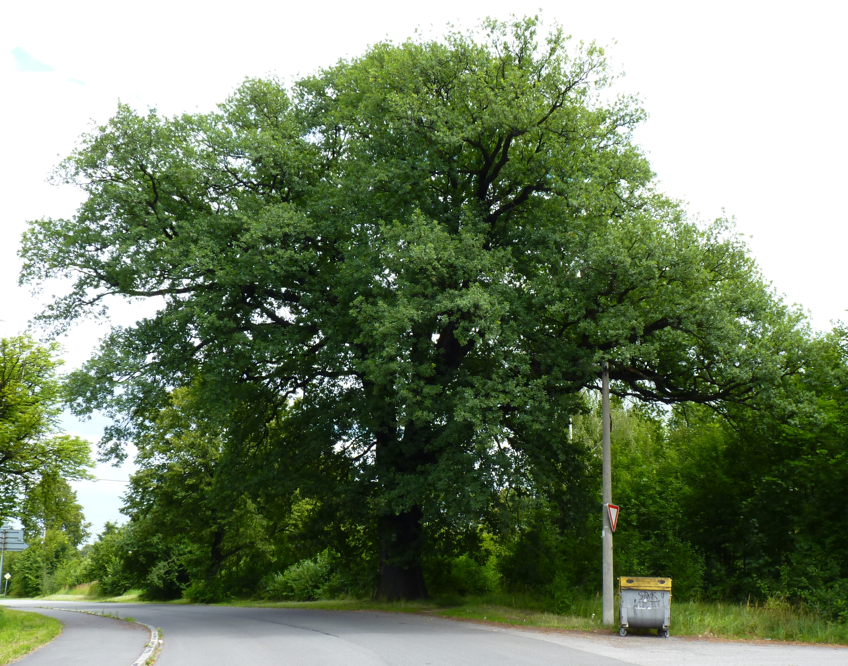 Quercus robur (famous tree). Doubrava, Karviná District, Moravian-Silesian Region, Czech Republic